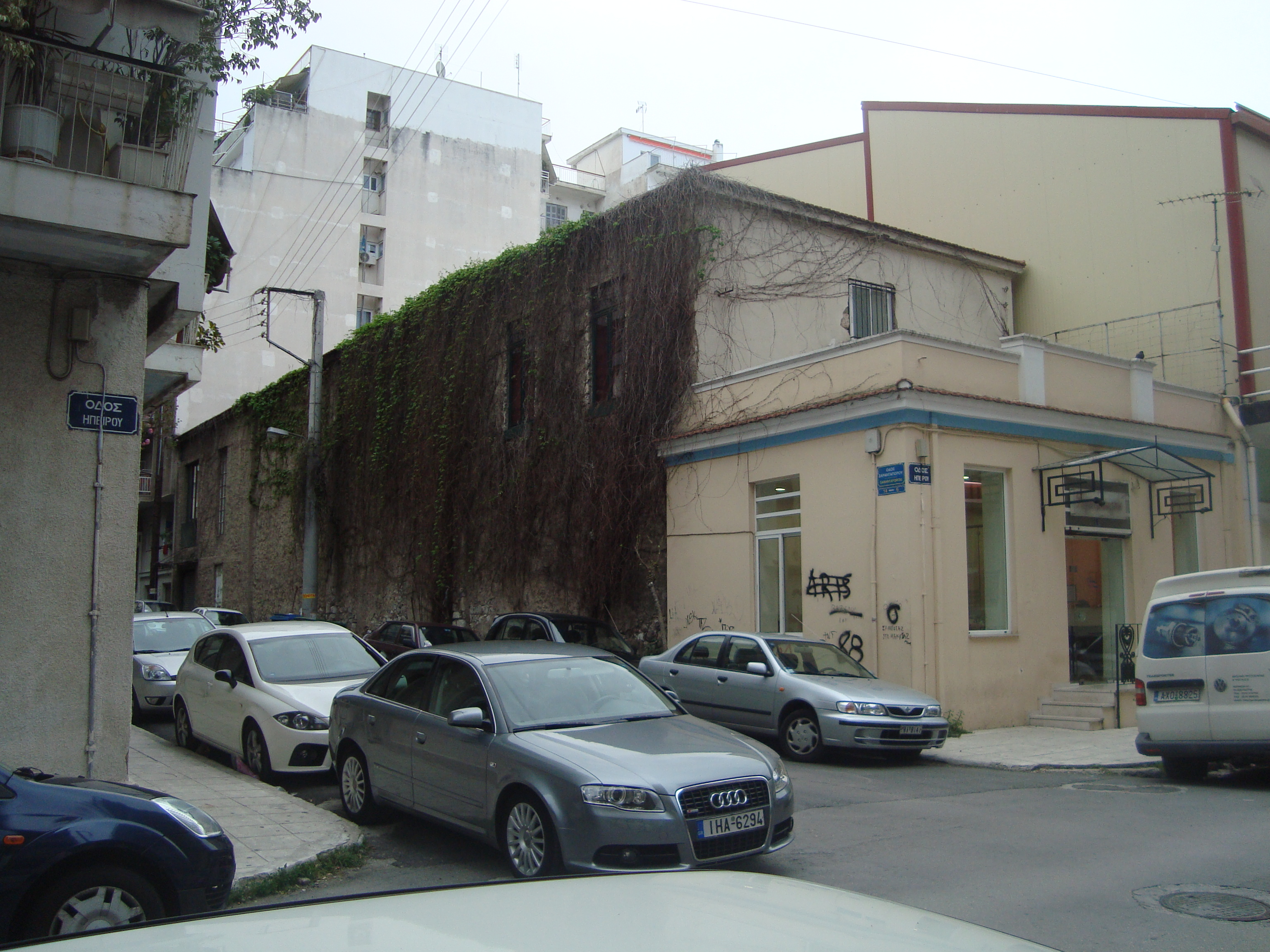 Old Pansion Austro-Amerikana, Now EA Partron sport center